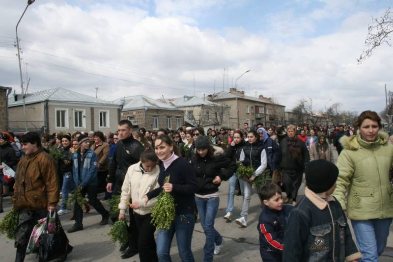 Palm Sunday procession in Tshkinvali in April, 2009.